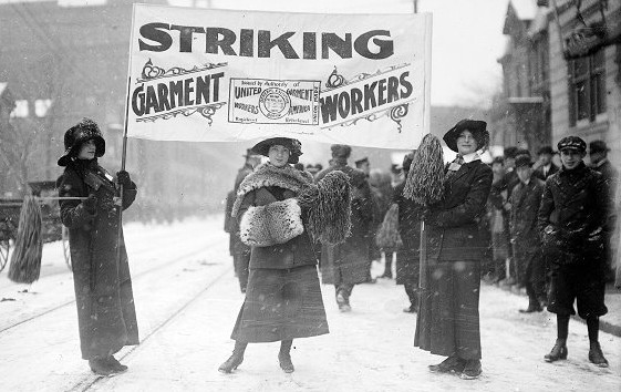 Strikers picketing during the 1913 Rochester, New York; Garment Workers' Strike.[1]